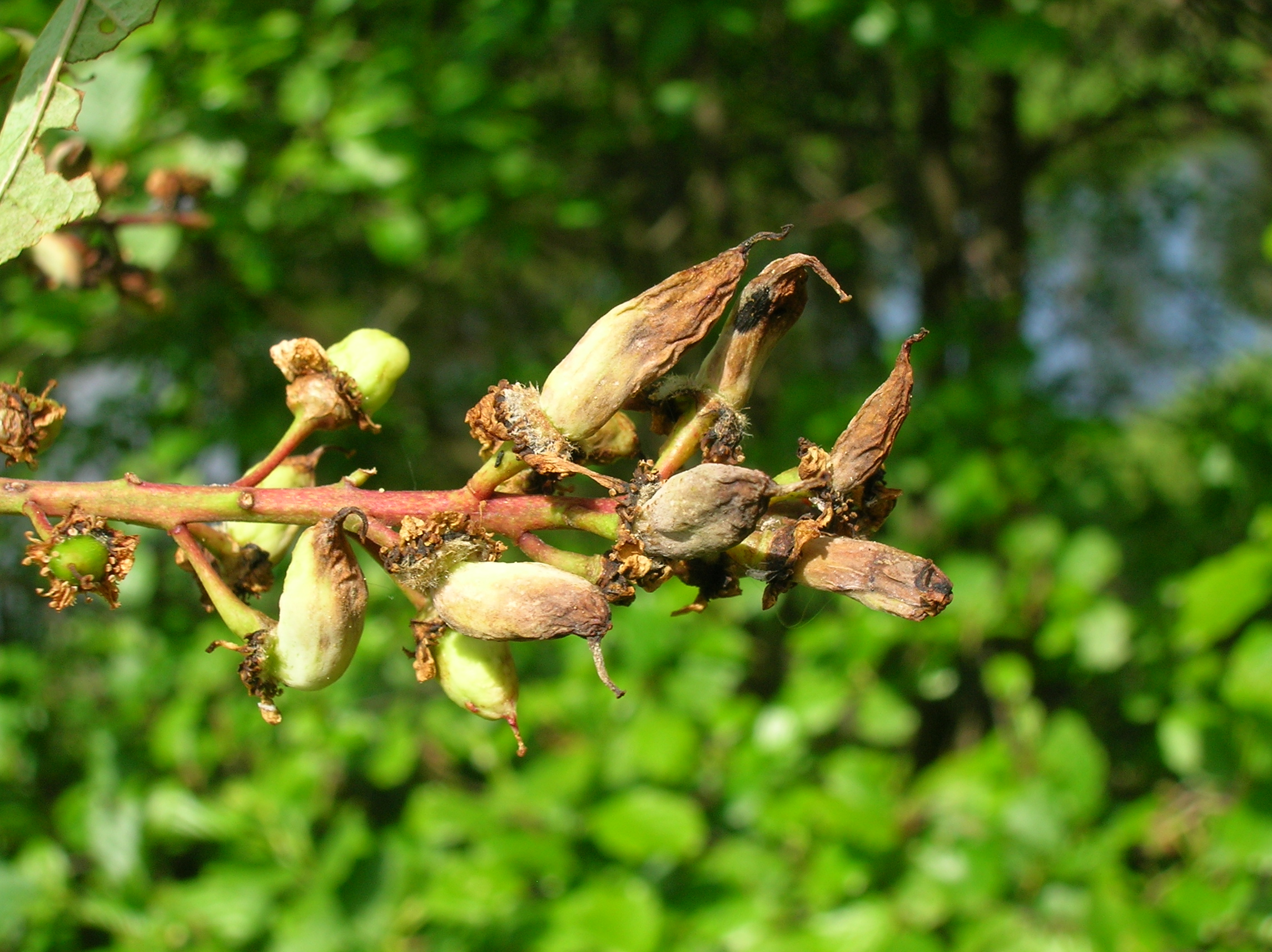 Taphrina padi, Pocket Plum gall, on Bird Cherry at Dalgarven Mill, Ayrshire, Scotland. Maturing galls.